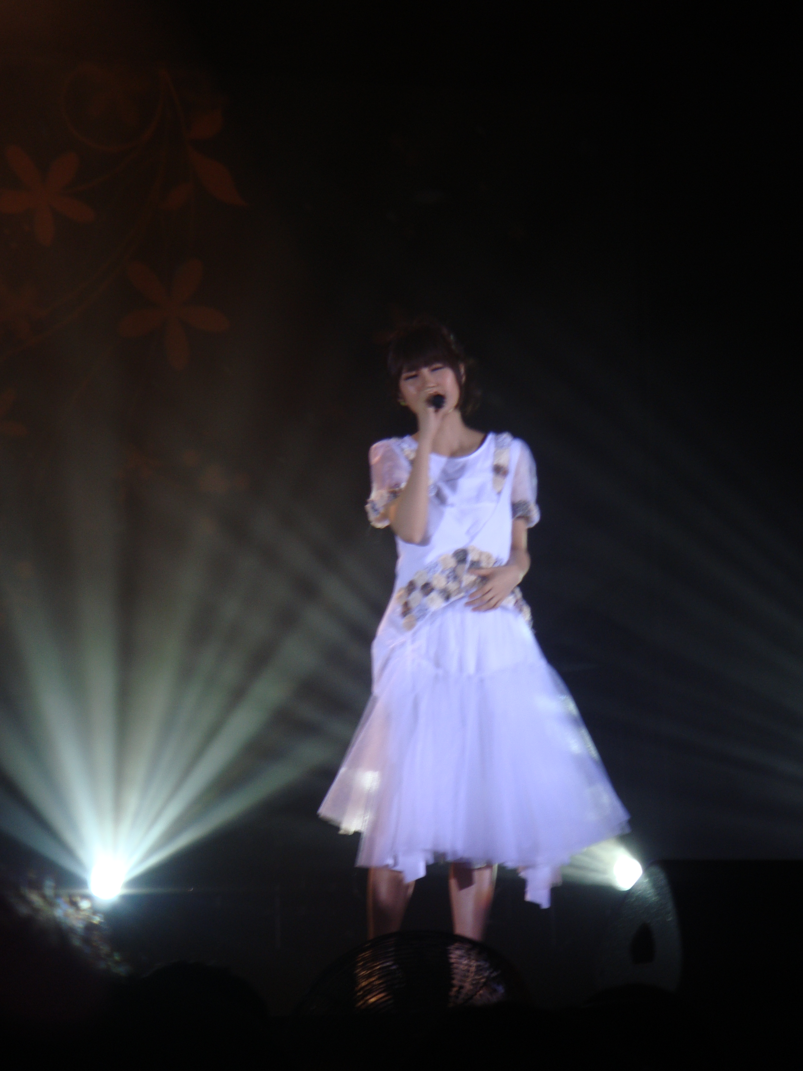 Afu Teng's concert in Hong Kong (July 13)